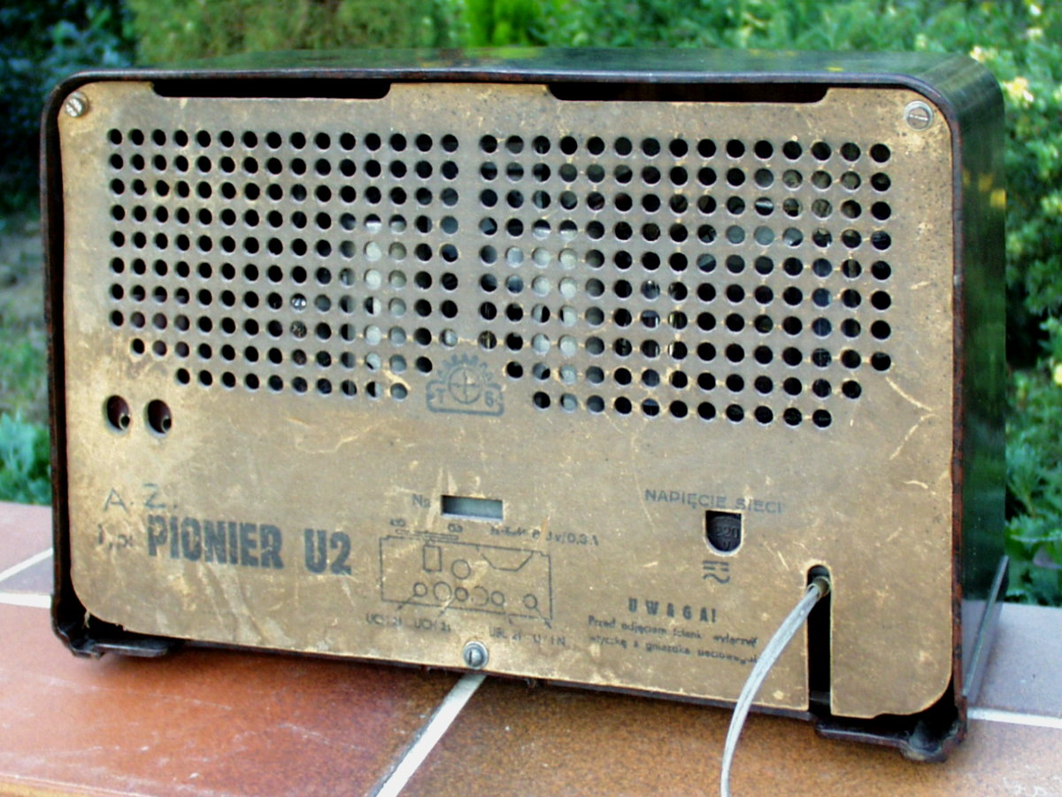 Radio "Pionier U2", (rear)manufacturer: "DIORA" (Poland), 1947-1957